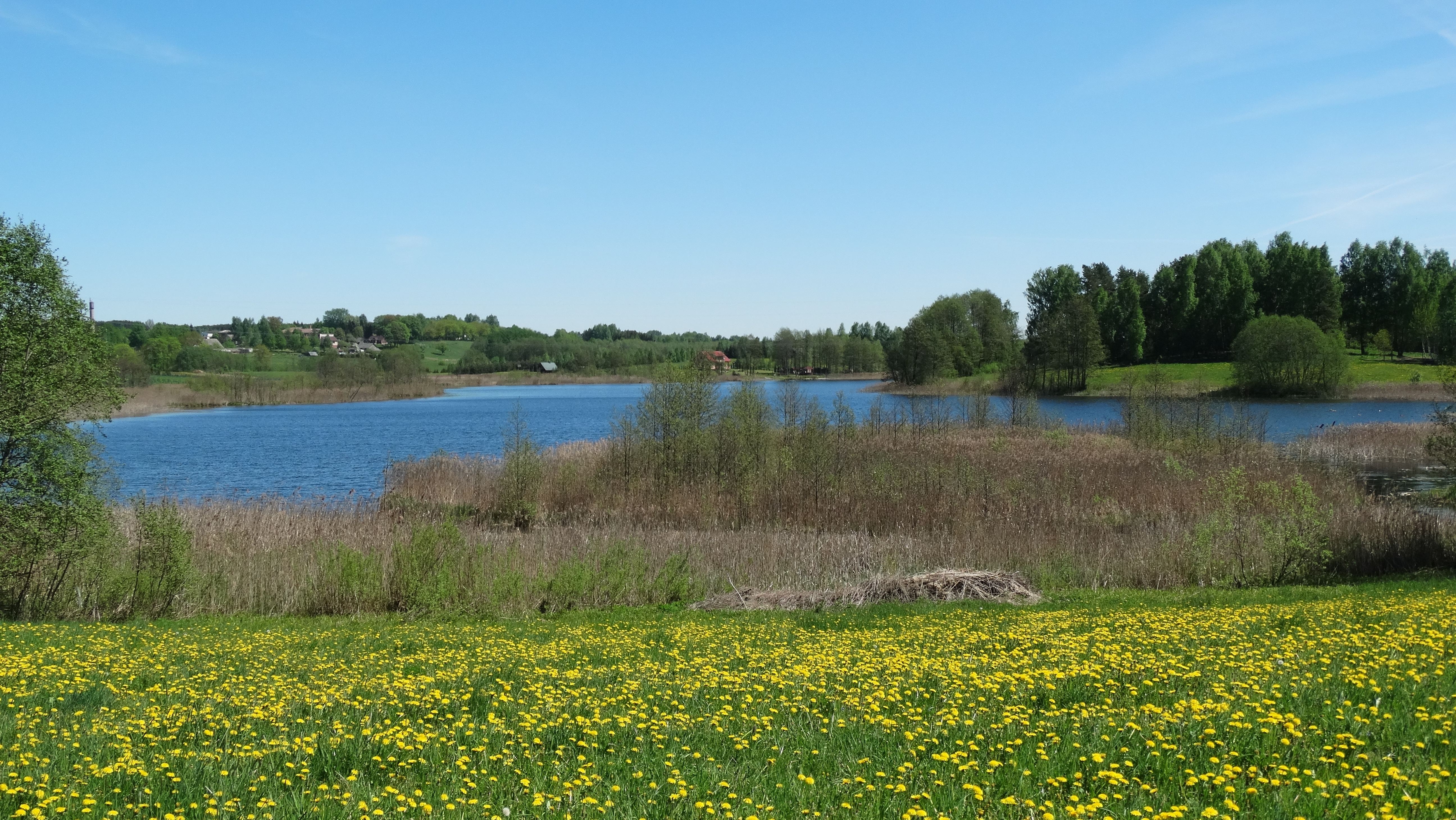 Virintai Lake, Molėtai district, Lithuania